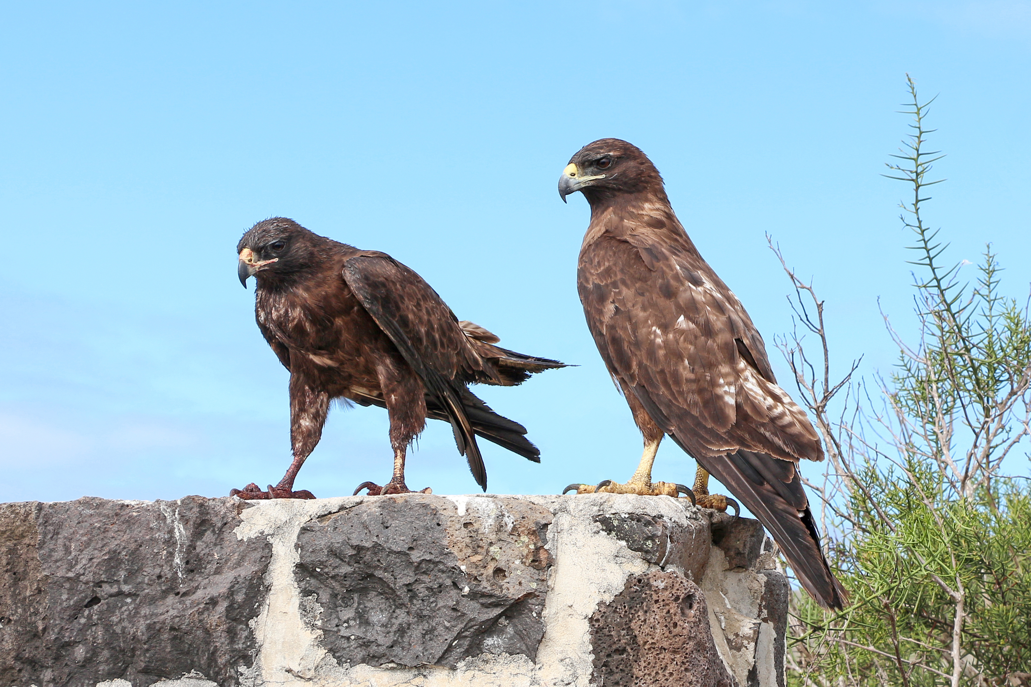 Galápagos hawks (Buteo galapagoensis), Santa Fe Island, Galápagos National Park, Ecuador